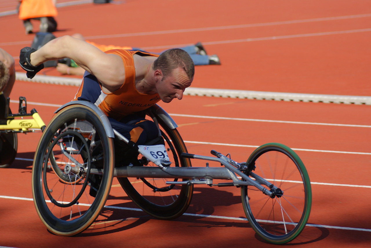 Dutch wheelchair racer Kenny van Weeghel at the 2006 IPC World Championships in Assen, Netherlands.